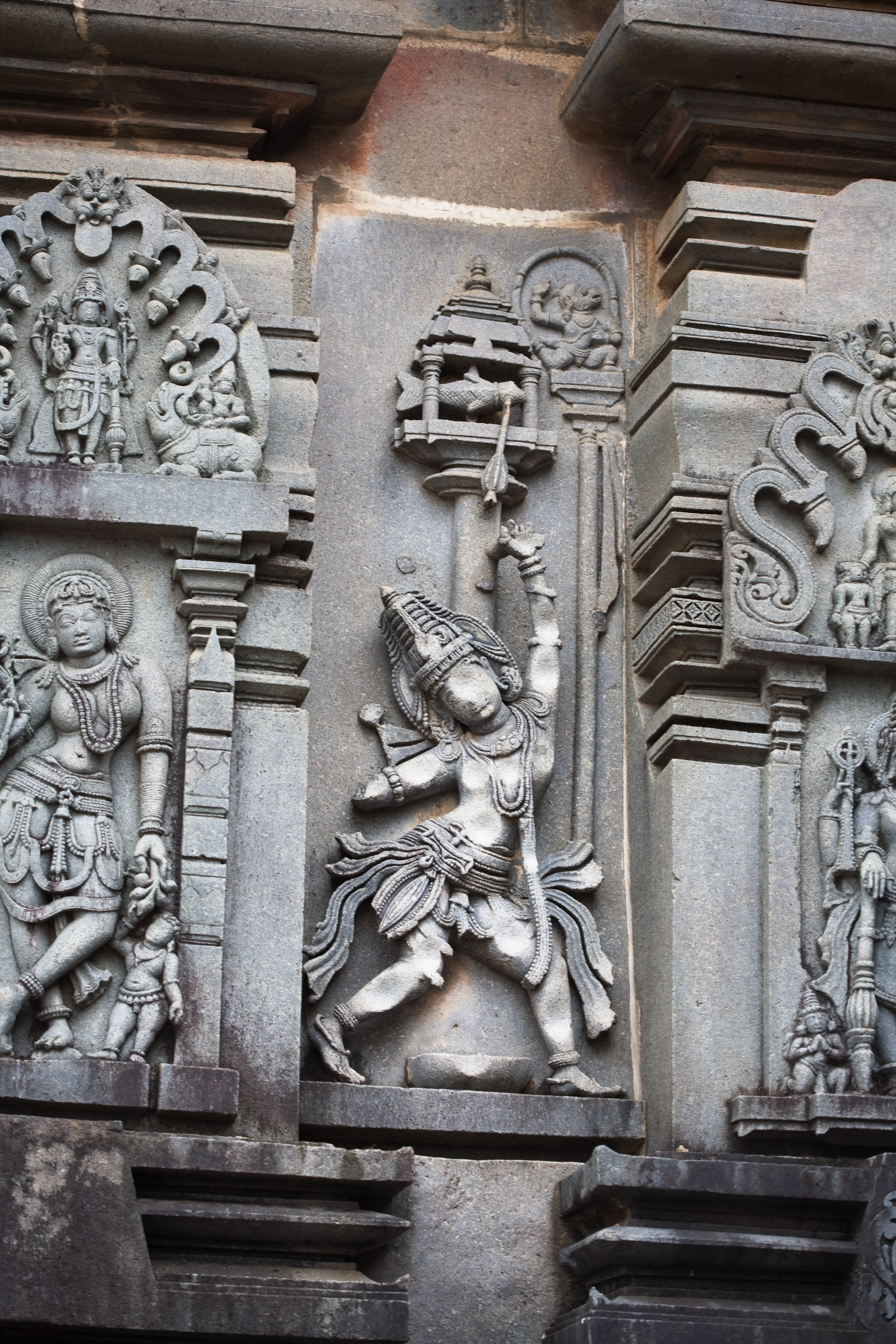 To win the hand of Draupadi Arjuna has to shoot the eye of a fish that's on a revolving platform while aiming using a mirror. That Arjuna was a good archer.